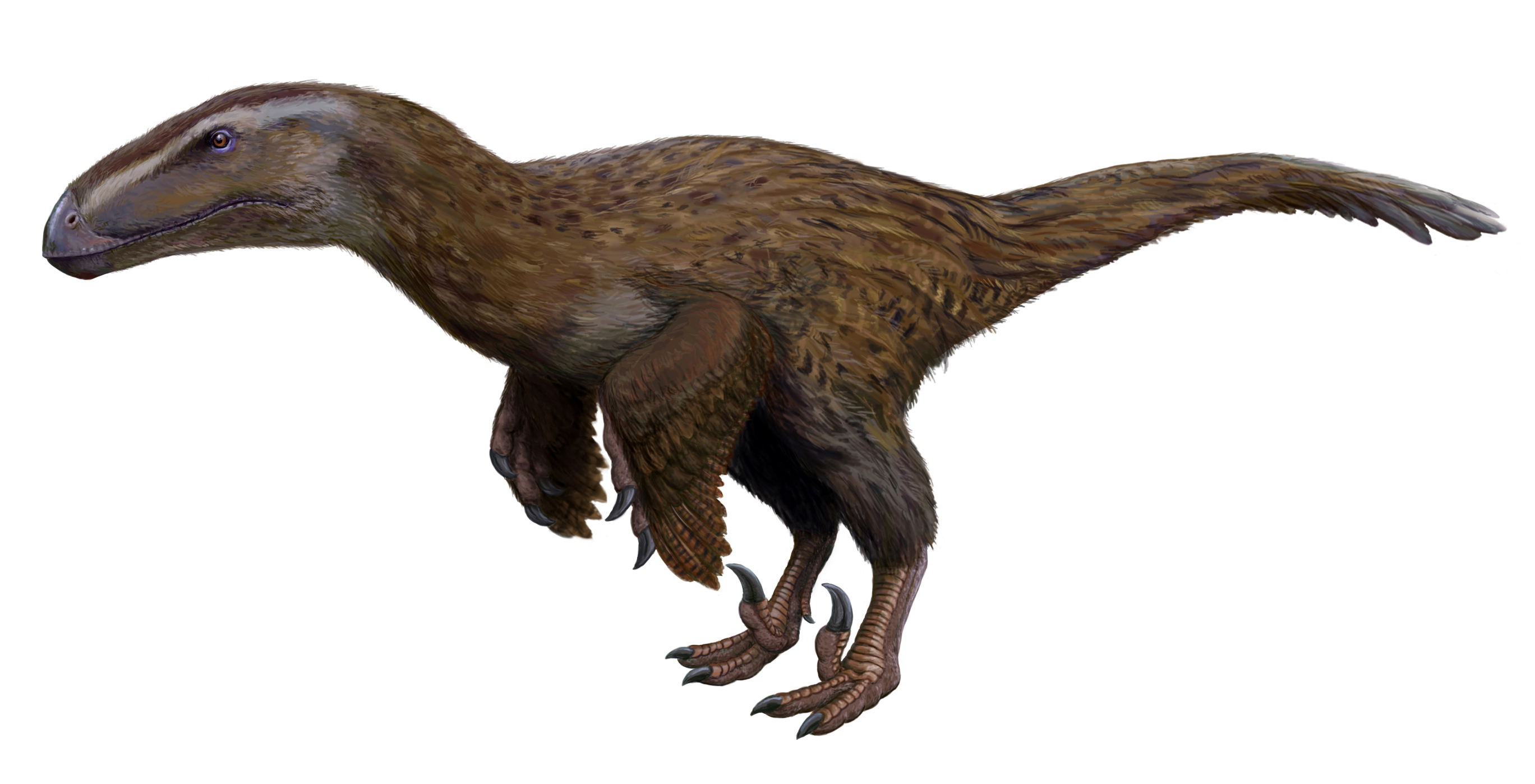 Hypothetical restoration of Dromaeosauroides bornholmensis, based on related genera. Incorporates suggestions by the discoverer and namer of the dinosaur made through email correspondence.